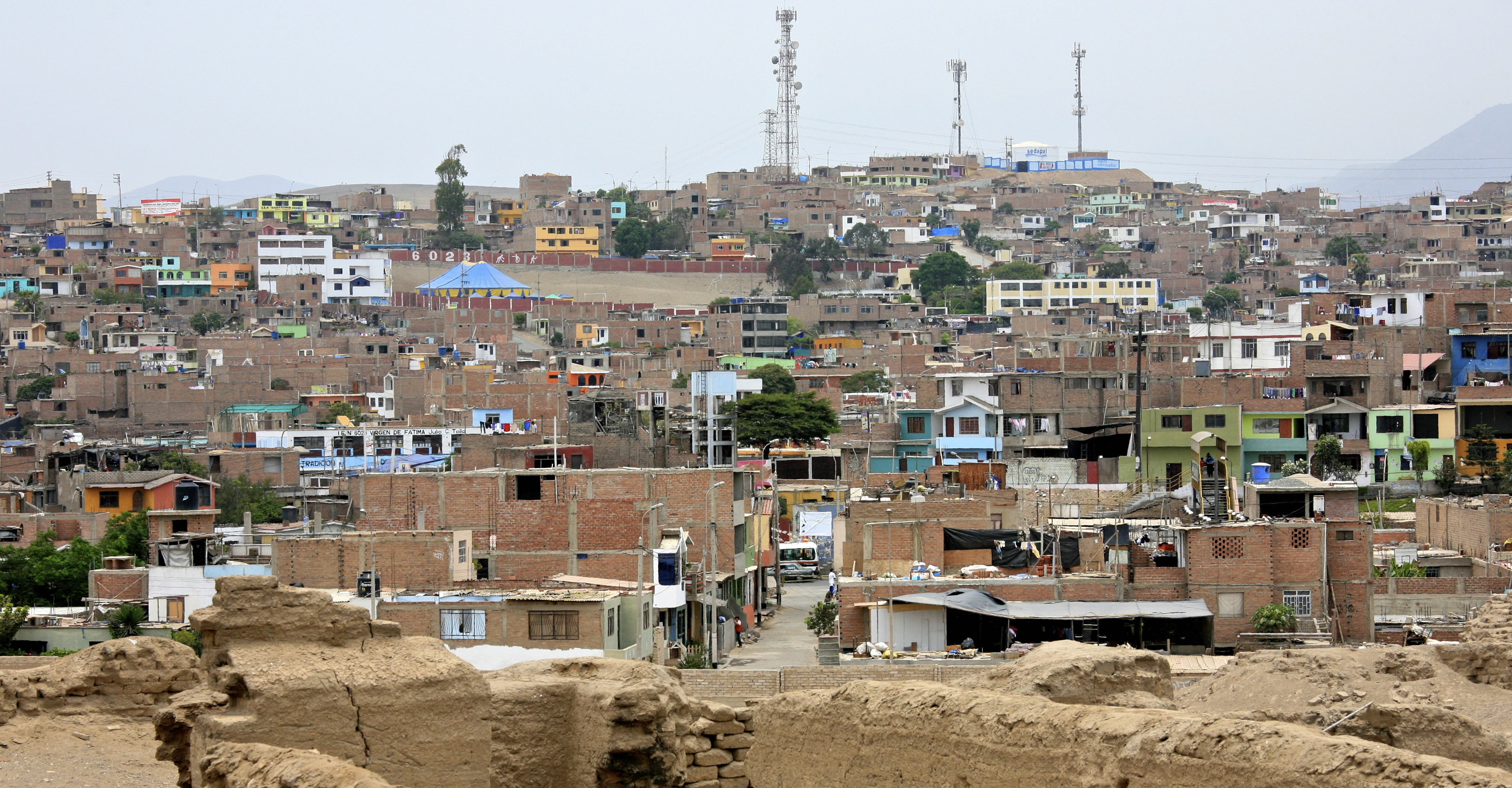 Living in Outskirts of Lima, Peru